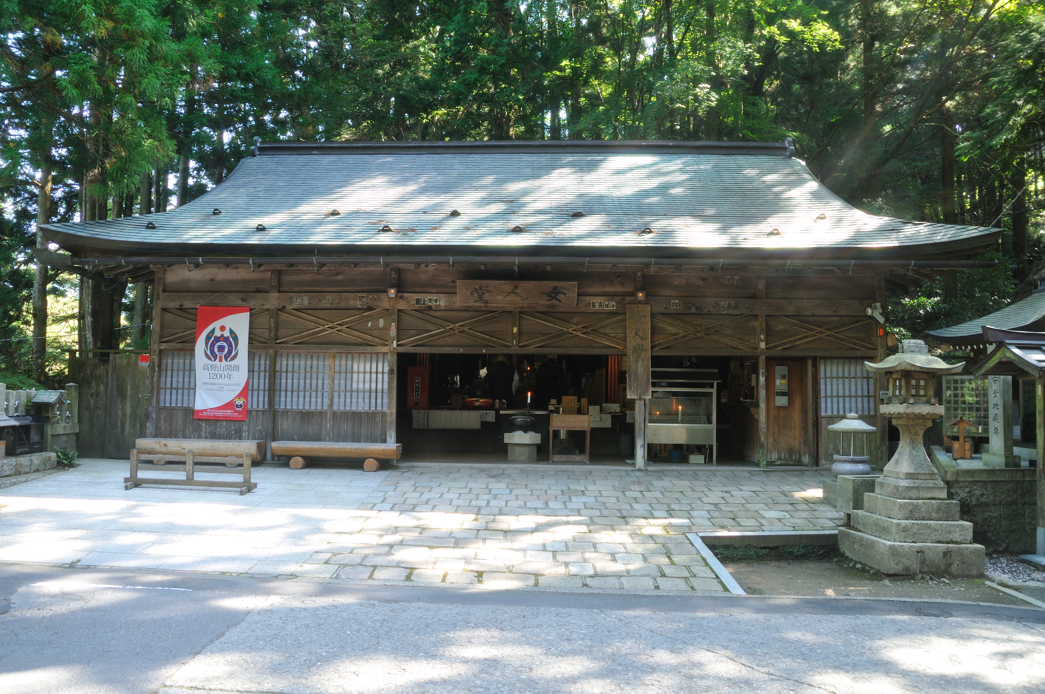 Fudōzakaguchi Nyonin-dō, Koyasan